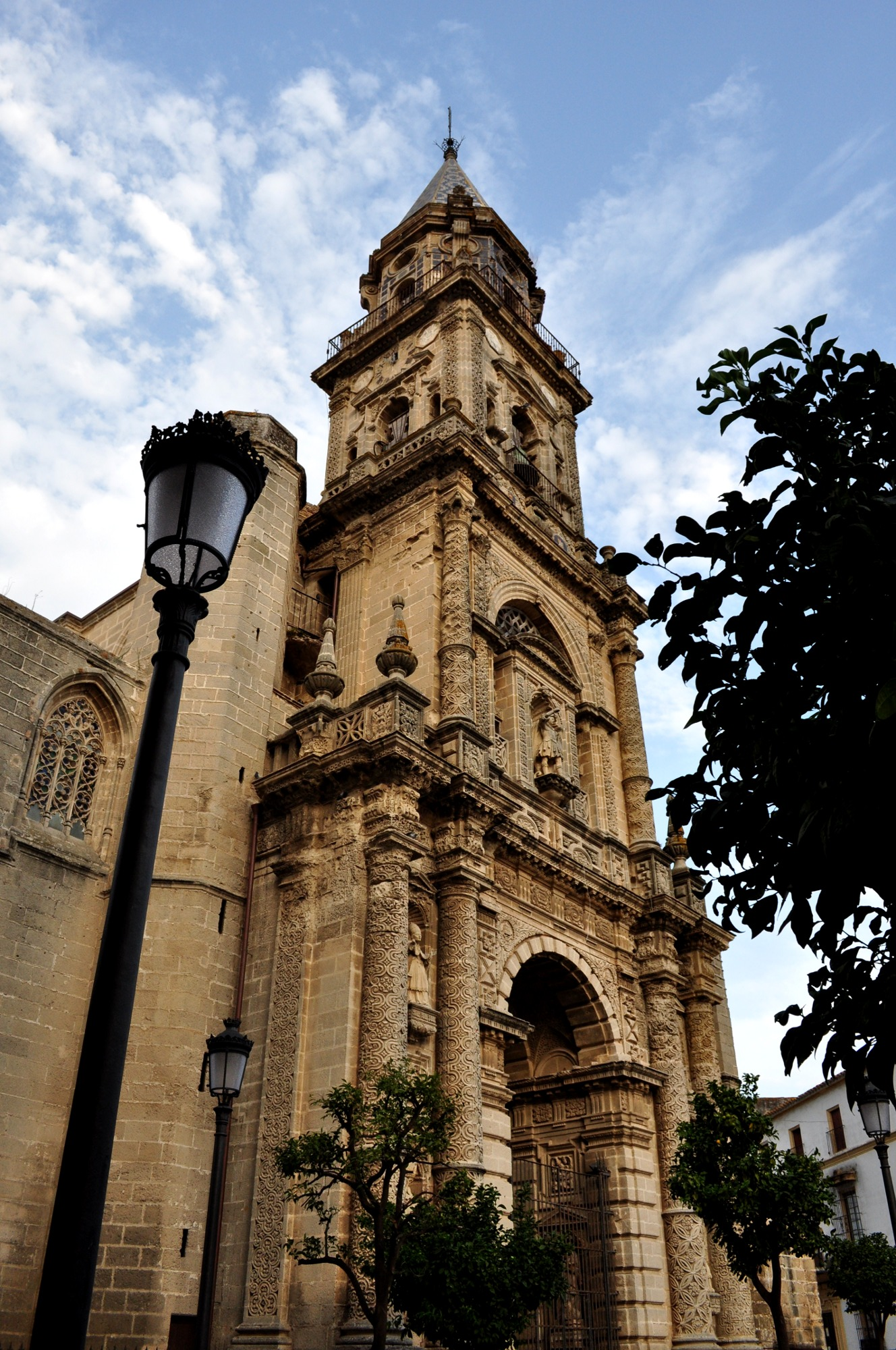 Façade Church Saint Michael, Jerez